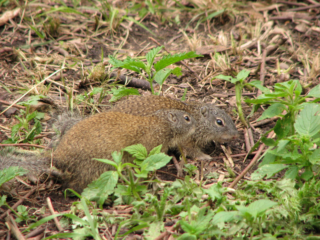 Franklin's Ground Squirrel (Spermophilus franklinii or Poliocitellus franklinii) at Sir Winston Churchill Provincial Park, Lac La Biche, Alberta, Canada